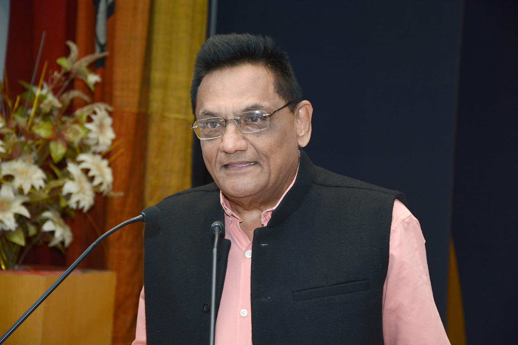 Gujarati writer Mahesh Champaklal at Gujarati Vishvakosh Trust